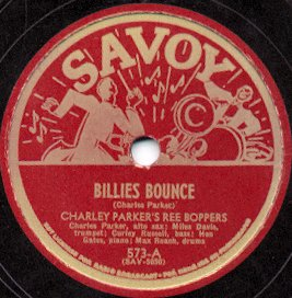 Savoy Records, label of a 78 rpm gramophone record by Charlie Parker, 1940s